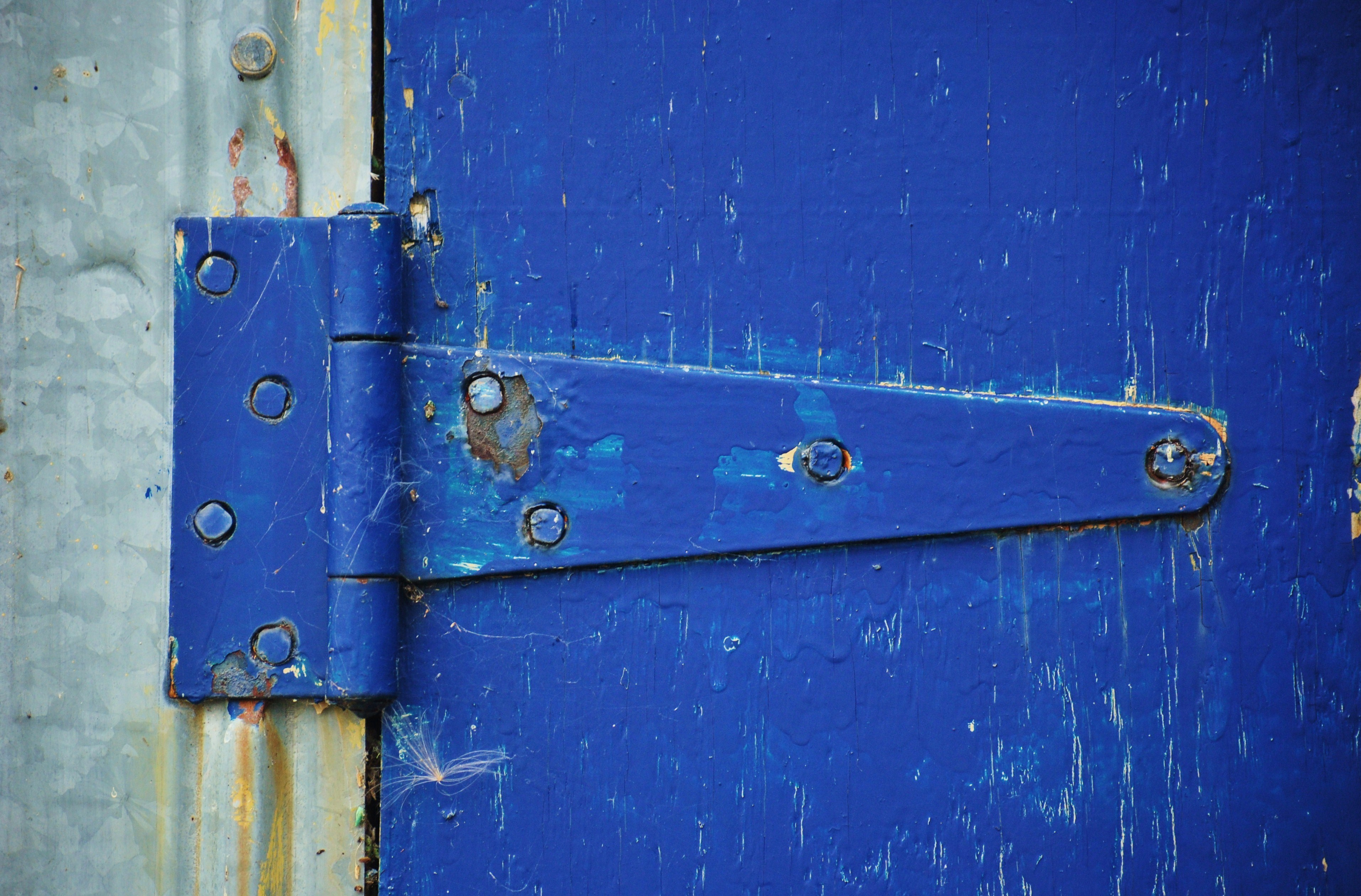 A blue hinge on a door.